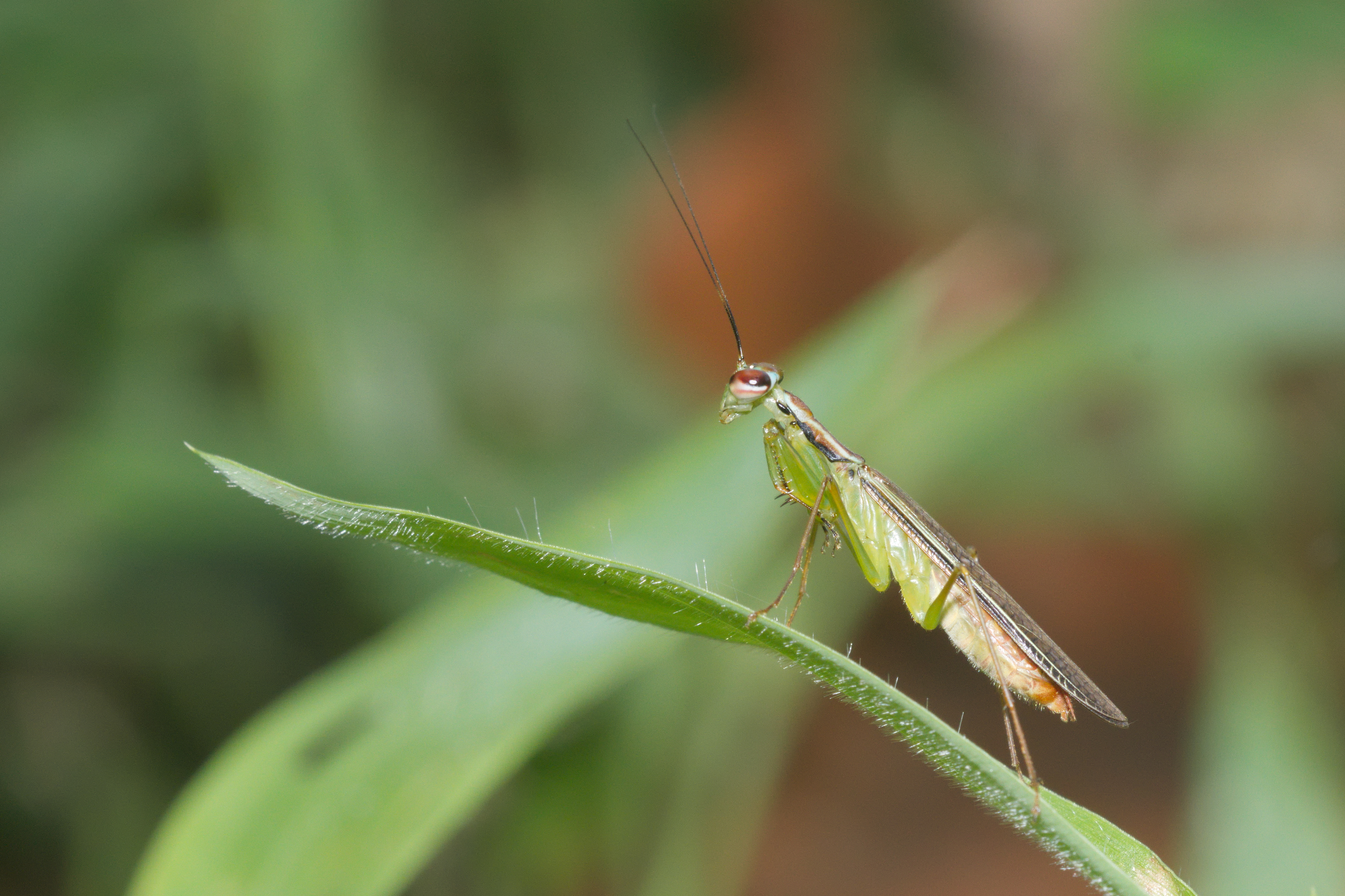 Hapalopeza nilgirica is a mantis in the family Iridopterygidae, whose members were formerly a subfamily within Mantidae. Ref: ID credits